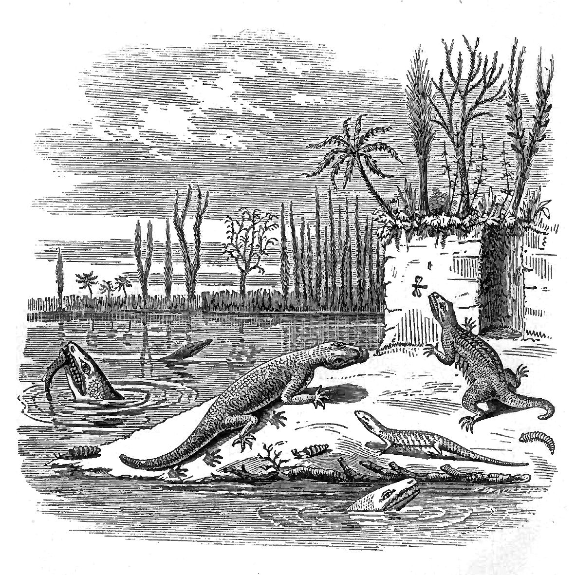 Historical reconstruction of the Lower Pennsylvanian biota of coal swamps of North America, including life reconstructions of tetrapod vertebrates Hylonomus, Dendrerpeton, Hylerpeton, and Baphetes. Original description accompanying the image, by its author: “On the left hand Baphetes Planiceps is seen emerging with a ganoid fish in its jaws. Next Dendrerpeton Acadianum is represented slowly walking up the inclined shore, and leaving its hand-like footprints thereon. A little farther Hylonomus Lyelli is leaping in pursuit of an insect and Hylonomus Wymani stands a little more in the foreground, while Hylerpeton Dawsoni is disporting itself in the water in front [...] In the middle ground of the picture I have placed a bank of soil, showing a section of a hollow trunk, similar to those in which the reptile bones of the Joggins occur, and on this bank and in the distance, I have endeavored to give some of the characteristic forms of vegetation of the period: Ferns, Cordaites, Sigillaria, Lepidendron [sic!], Lepidophloios, and Calamites.”